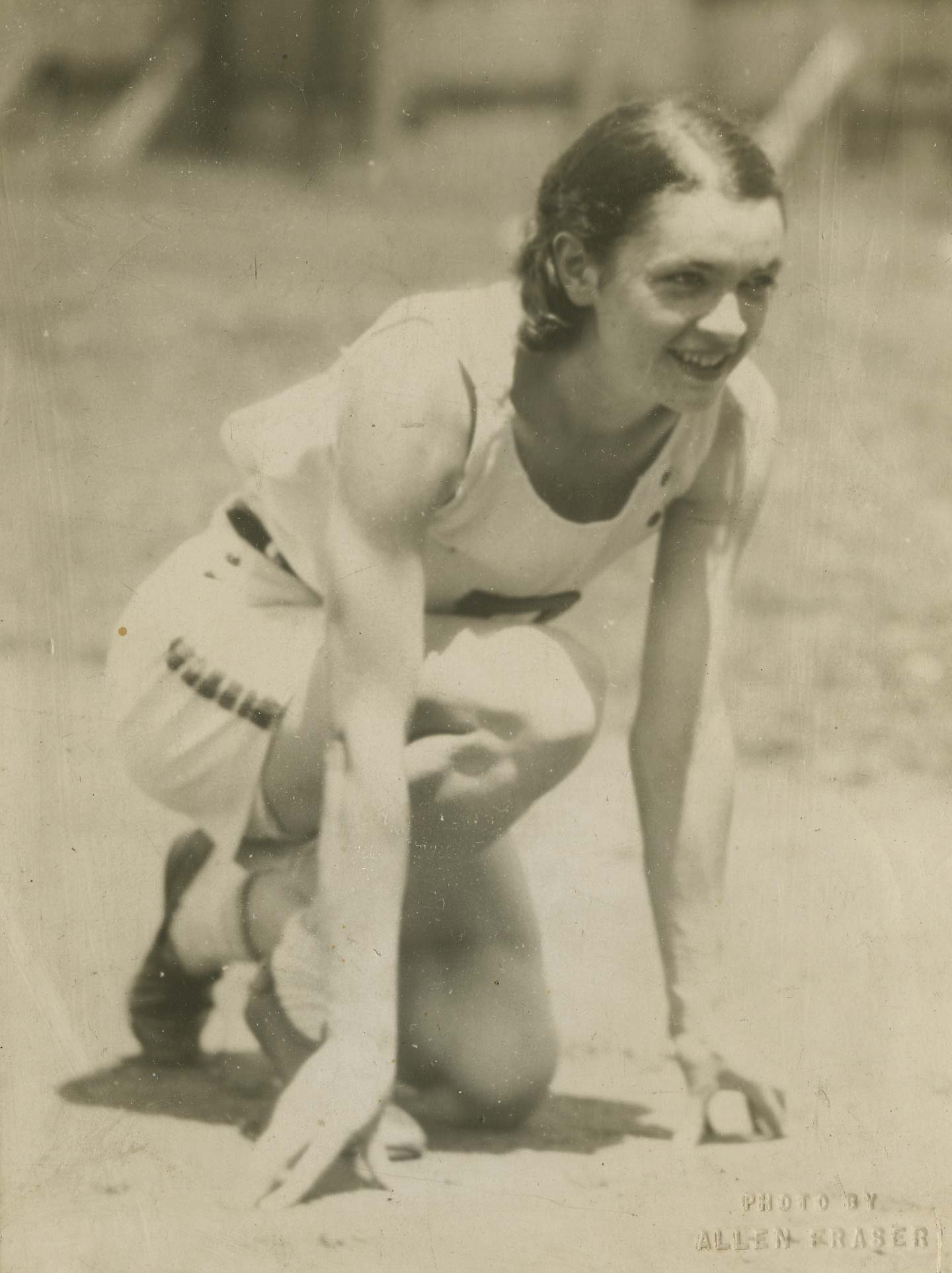 The Halifax Mail, 2 July 1932, printed this photograph of Aileen Meagher. Aileen Aletha Meagher (November 26, 1910 – August 2, 1987) was a Canadian athlete who competed in the 1936 Summer Olympics. She was born and died in Halifax, Nova Scotia. She was also a painter.